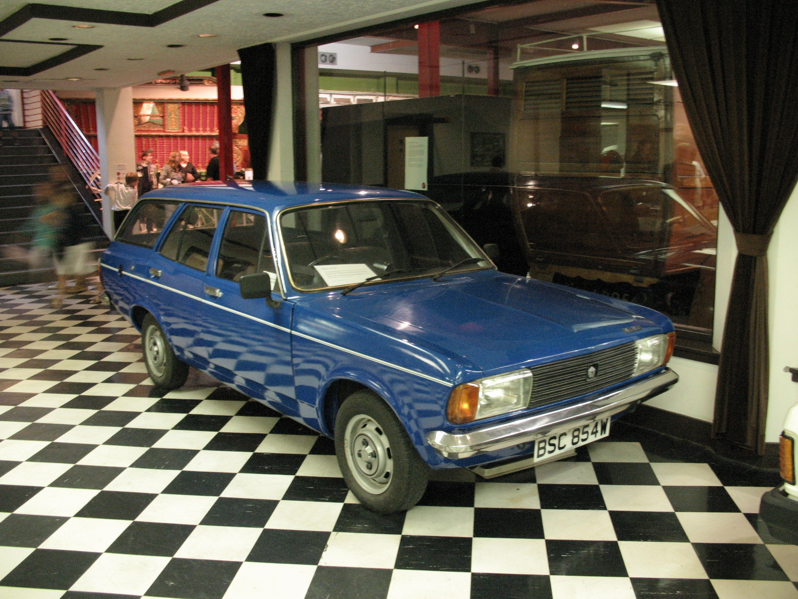 The Hillman Avenger was introduced in 1970 and was rebadged as a Chrysler Avenger in 1976 and then as a Talbot Avenger in 1979. This ecar was one of the last ones produced in Linwood Factory in 1981.